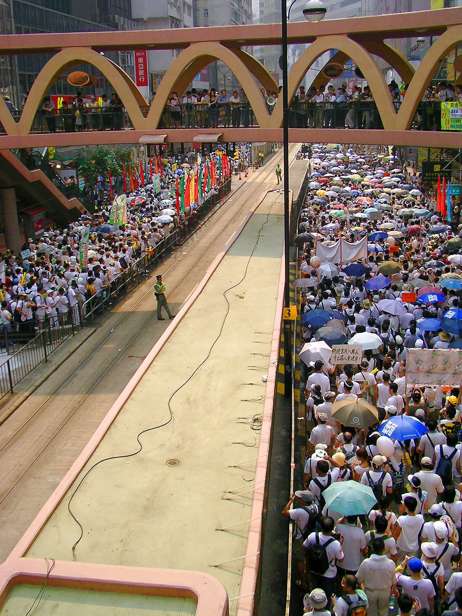 HK 71 marches in 2004